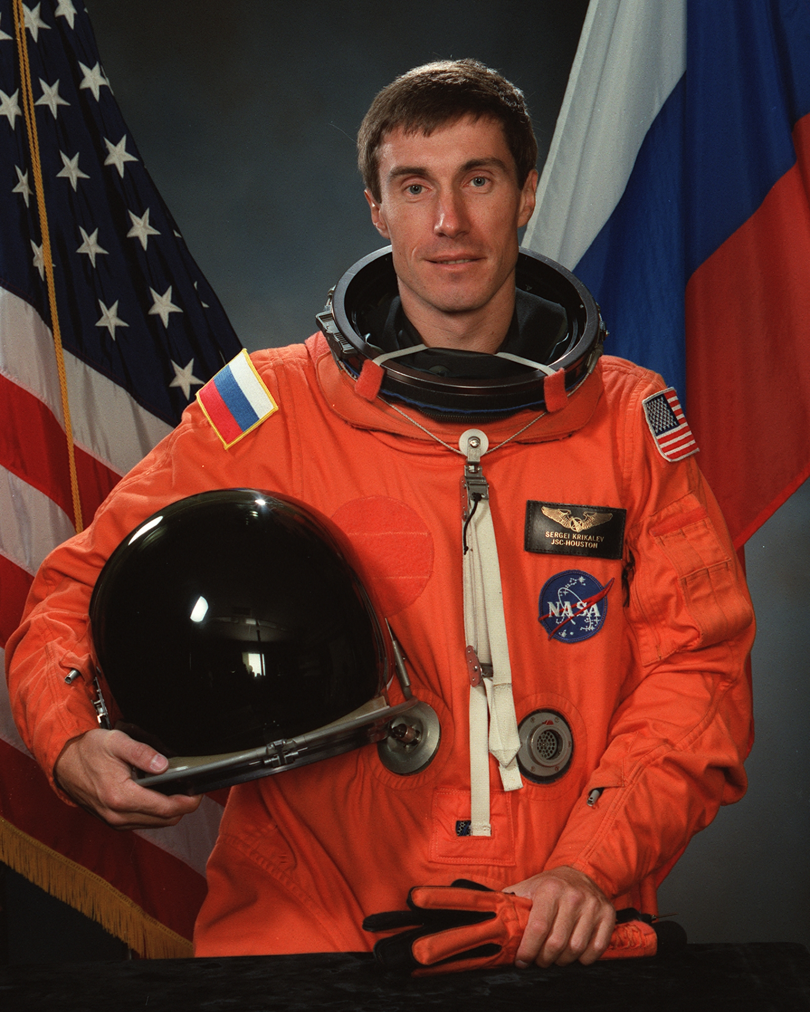 Sergei Konstantinovich Krikalev - Сергей Константинович Крикалёв - Cosmonaut who flew in both Soviet and US space missions.